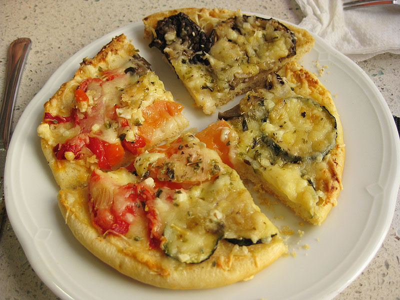 A vegetable and cheese Coca, much like a little pizza, from county Ribera, Valencian Country, Spain. Una coca de verdures i formatge, molt semblant a una pizzeta, típica de la Ribera (Cullera, Carcaixent...)